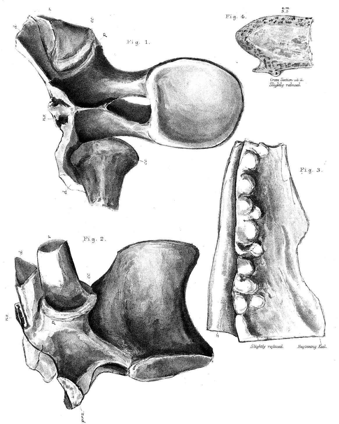 PLATE 70. Fig. 1. Posterior view of a vertebra from the front of the chestt Fig. 2. Oblique lateral view of the same. Fig. 3. Fragment of a large keeled scute with grooved margin and submarginal rings of tubercles. Jc. Beginning keel. Fig. 4. Sectional view at x in fig. 3. (This and fig. 3 are slightly reduced.)